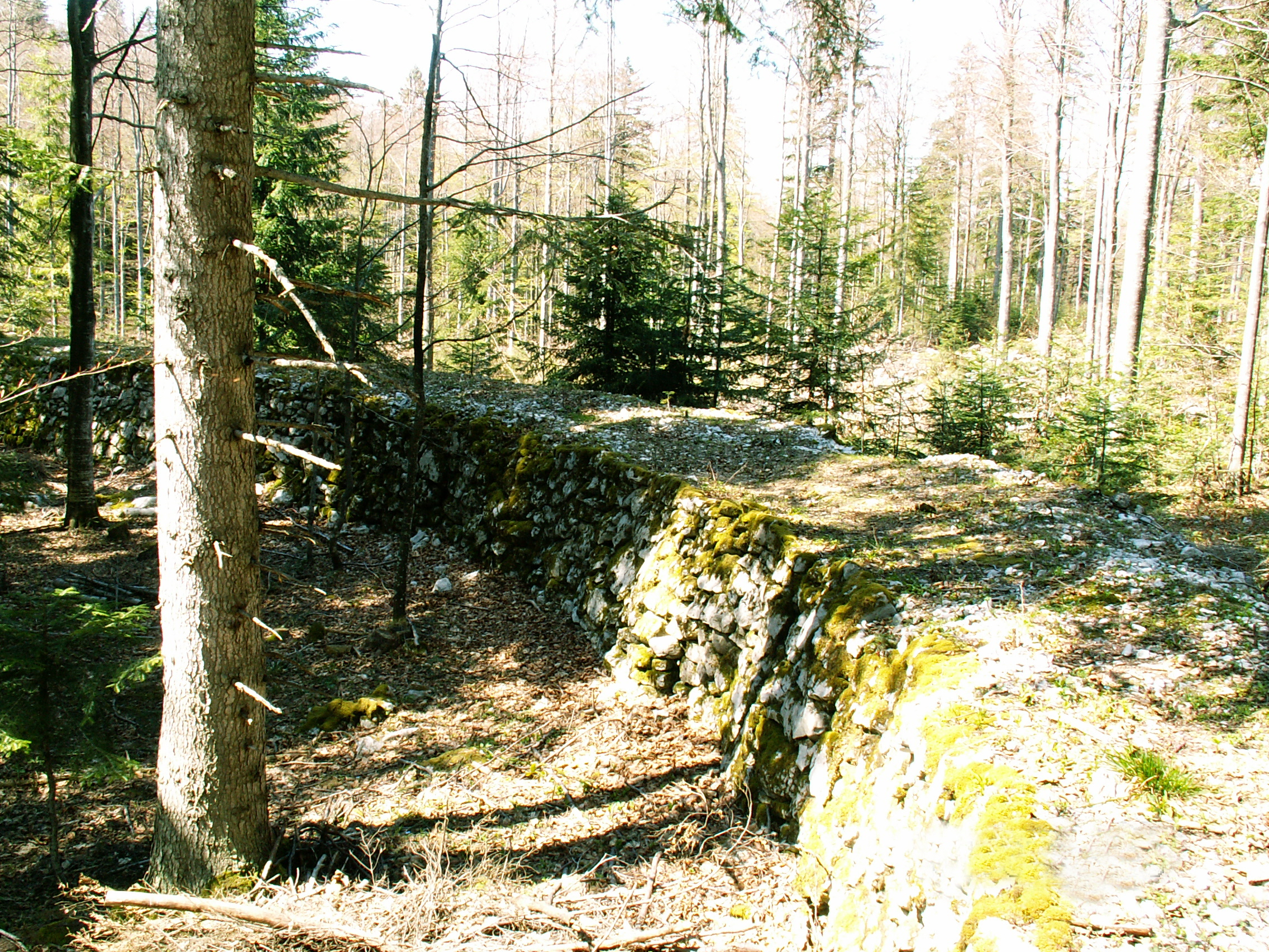 Remains of a forest railway which connected Rog Sawmill and Straža.